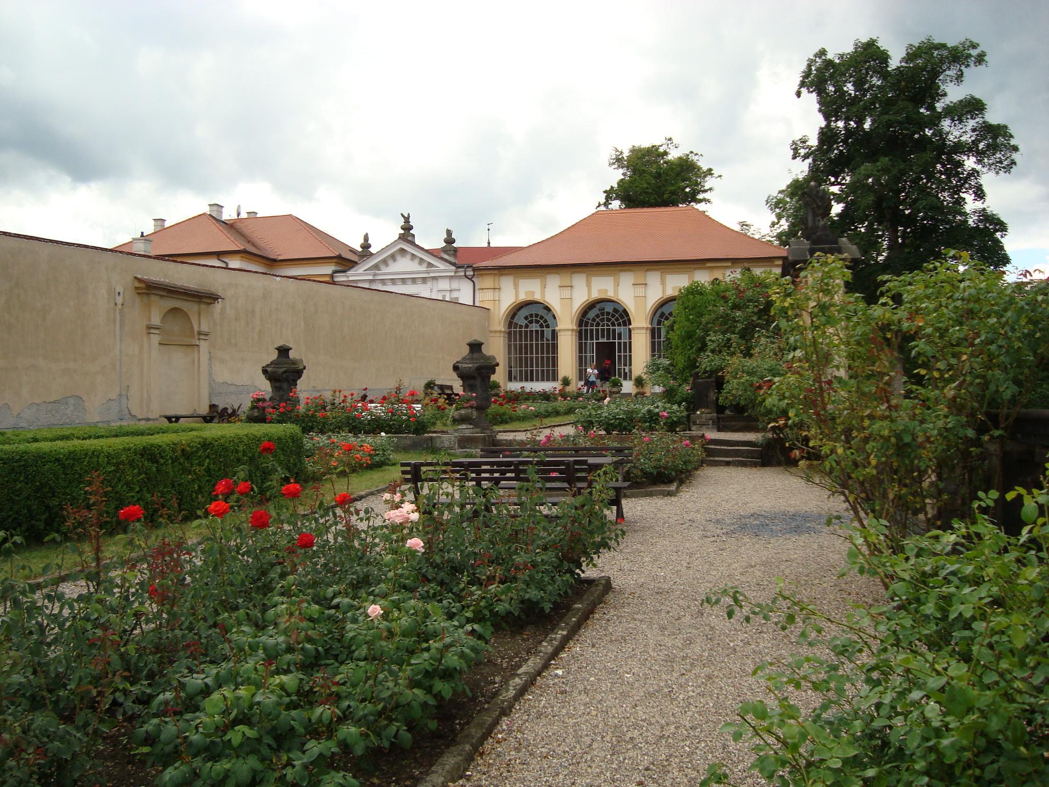 Rose Garden of Děčín Castle, Czech Republic. Western half of the garden with sala terrena.